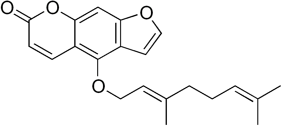 chemical structure of bergamottin